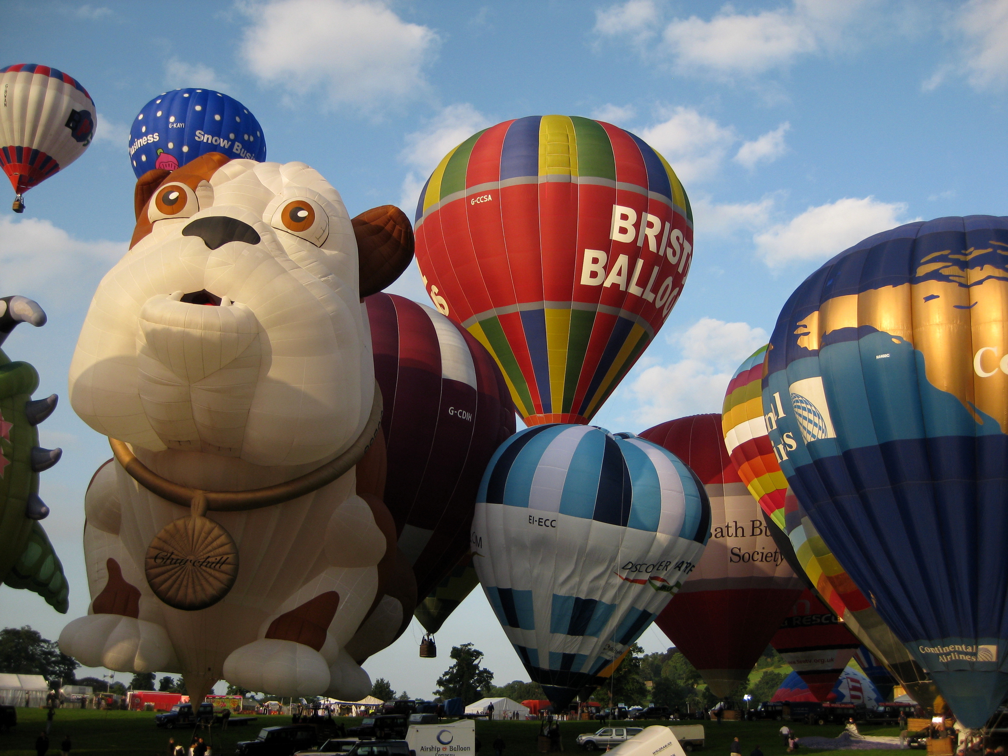 Bristol Balloon Fiesta, early morning ascent 2009.